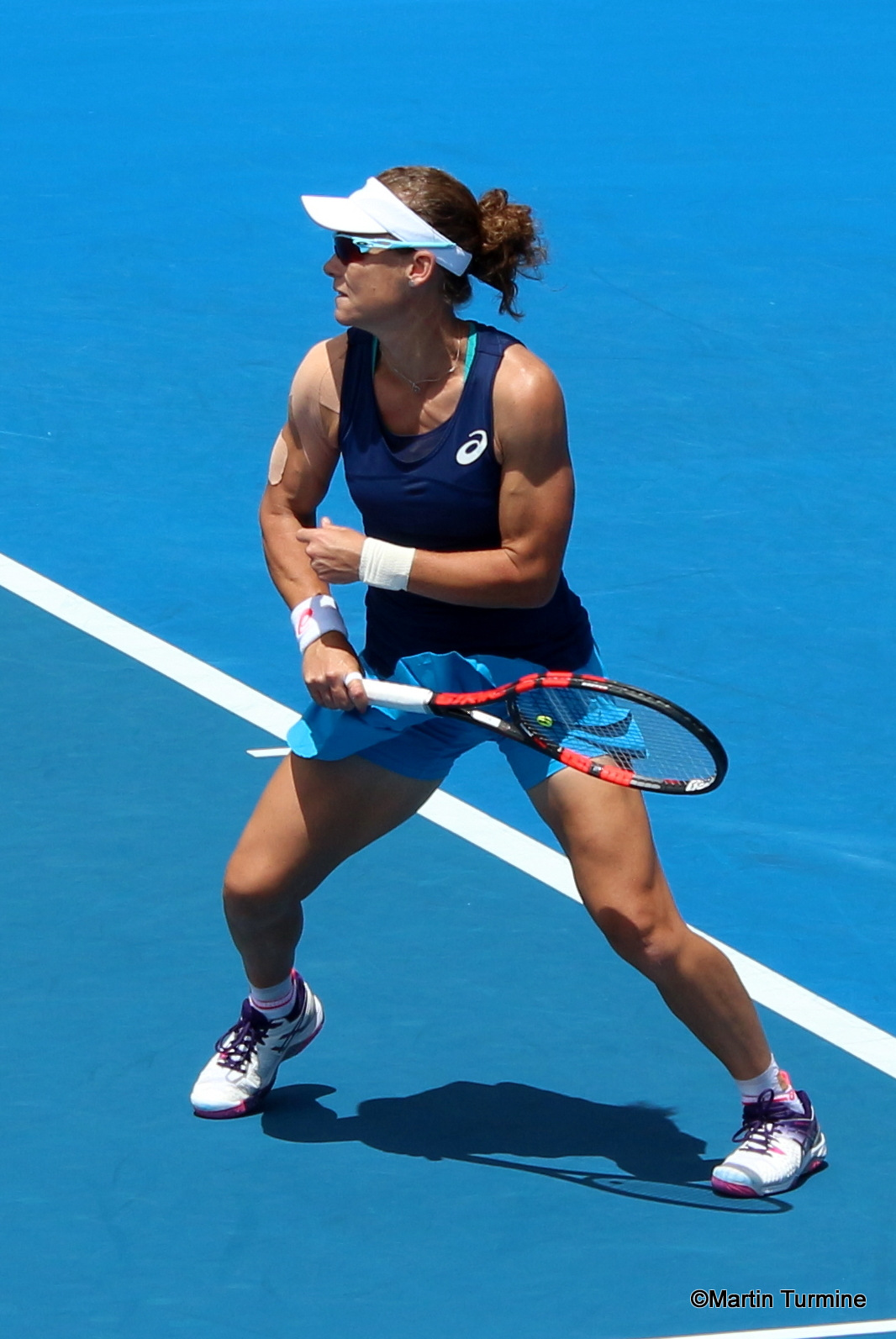 Samantha Stosur at the 2017 Australian_Open_2017